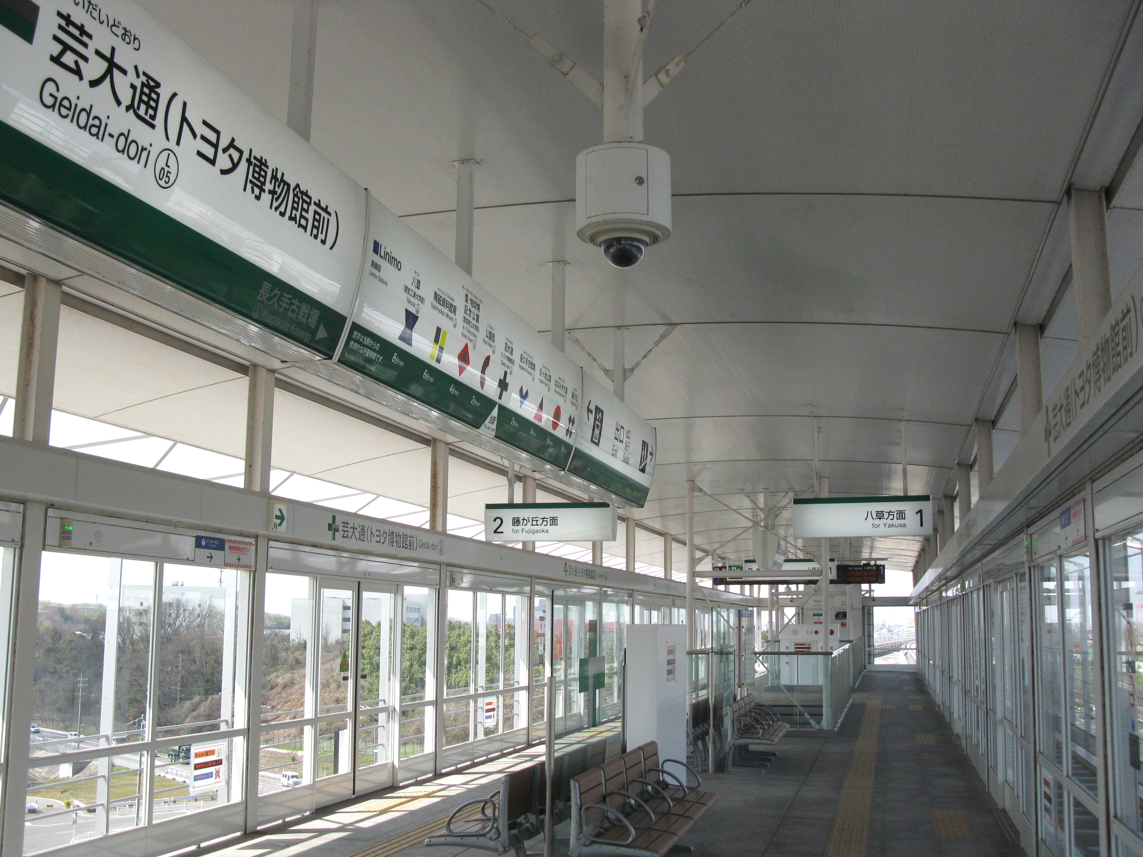 The platform of Geidai-dōri Station(Linimo, Aichi Rapid Transit)